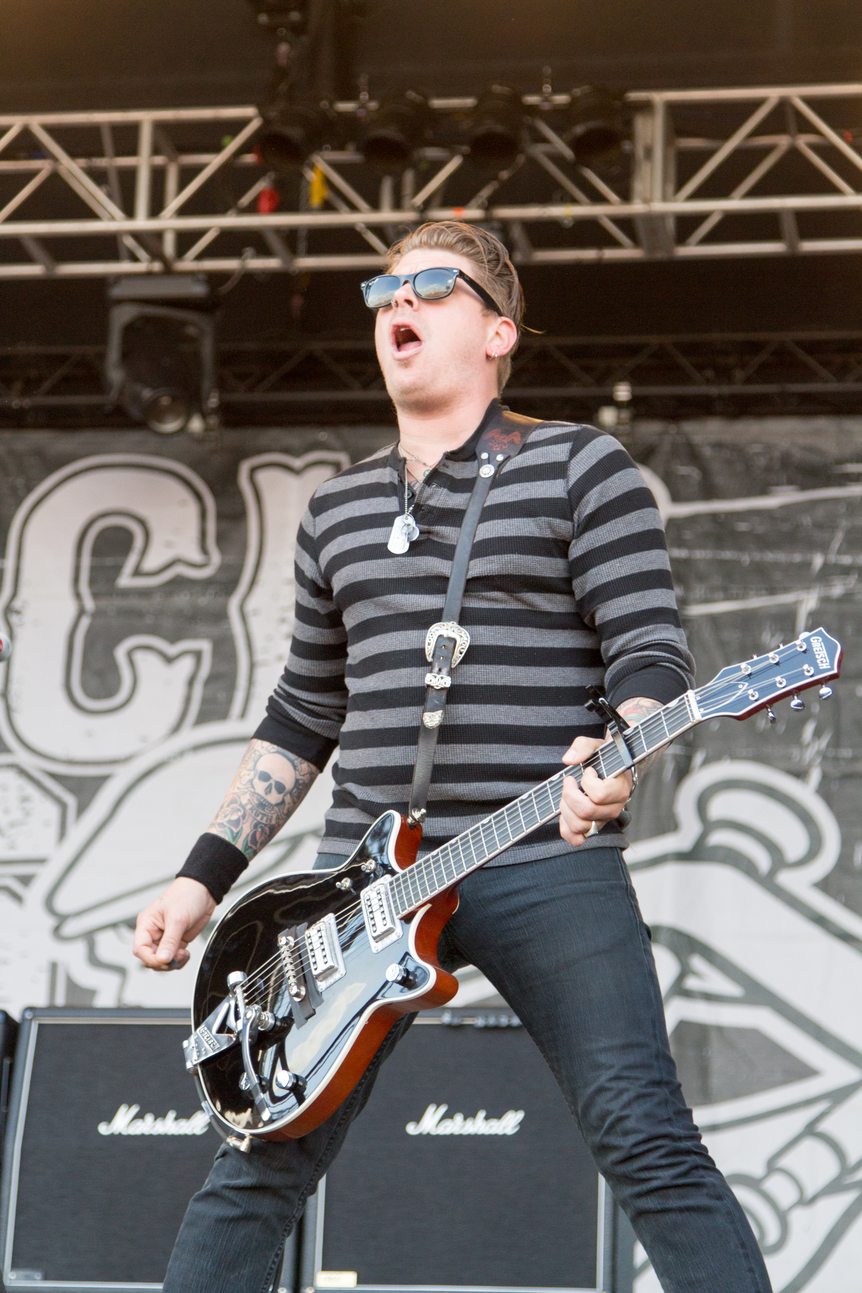 James Patrick Lynch from Dropkick Murphys at Nova Rock 2014